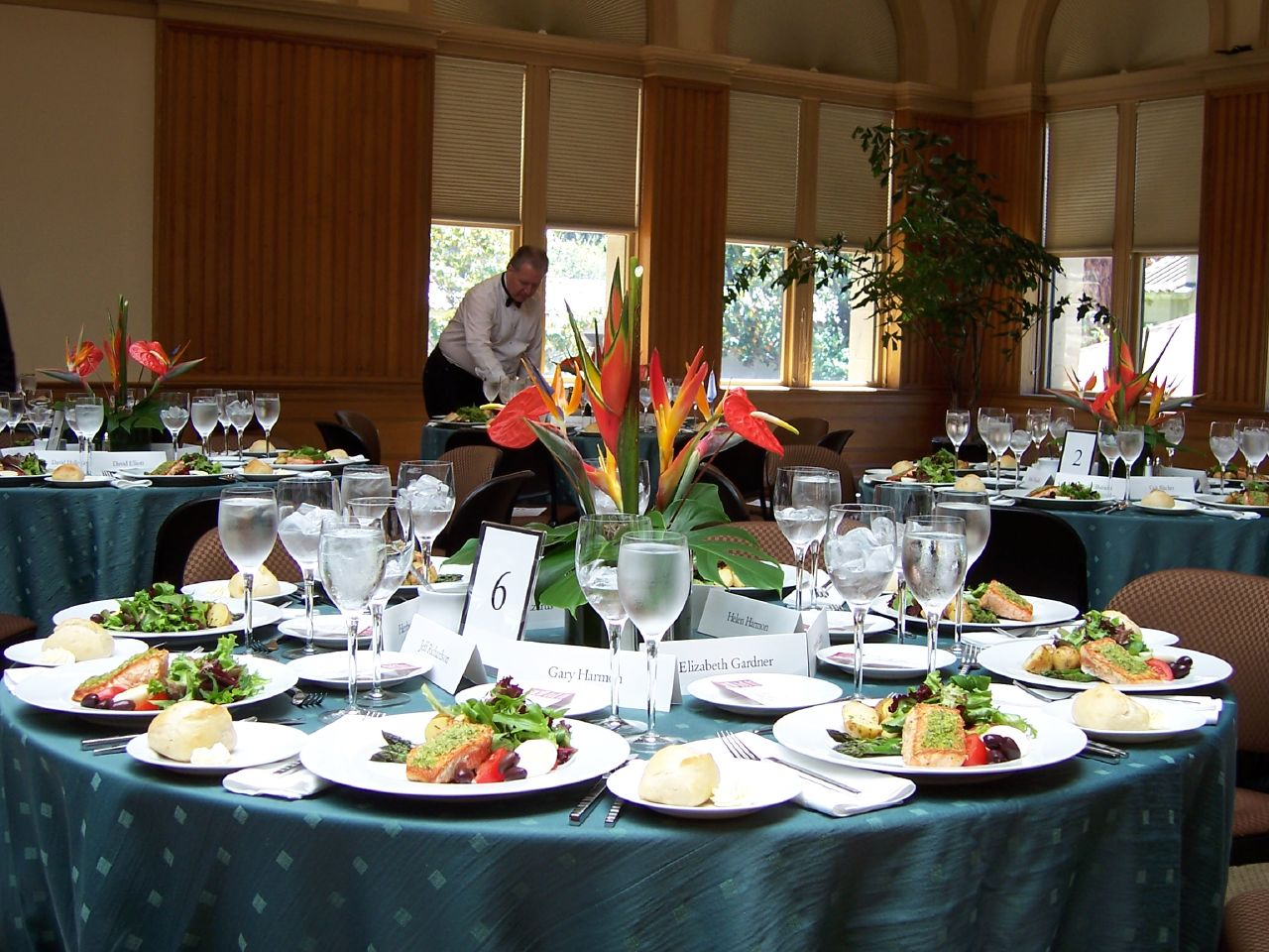 Catering By The Other Woman --Midori Mountain View, CA Email: Phone: 650.964.5424 Fax: 650.964.5451